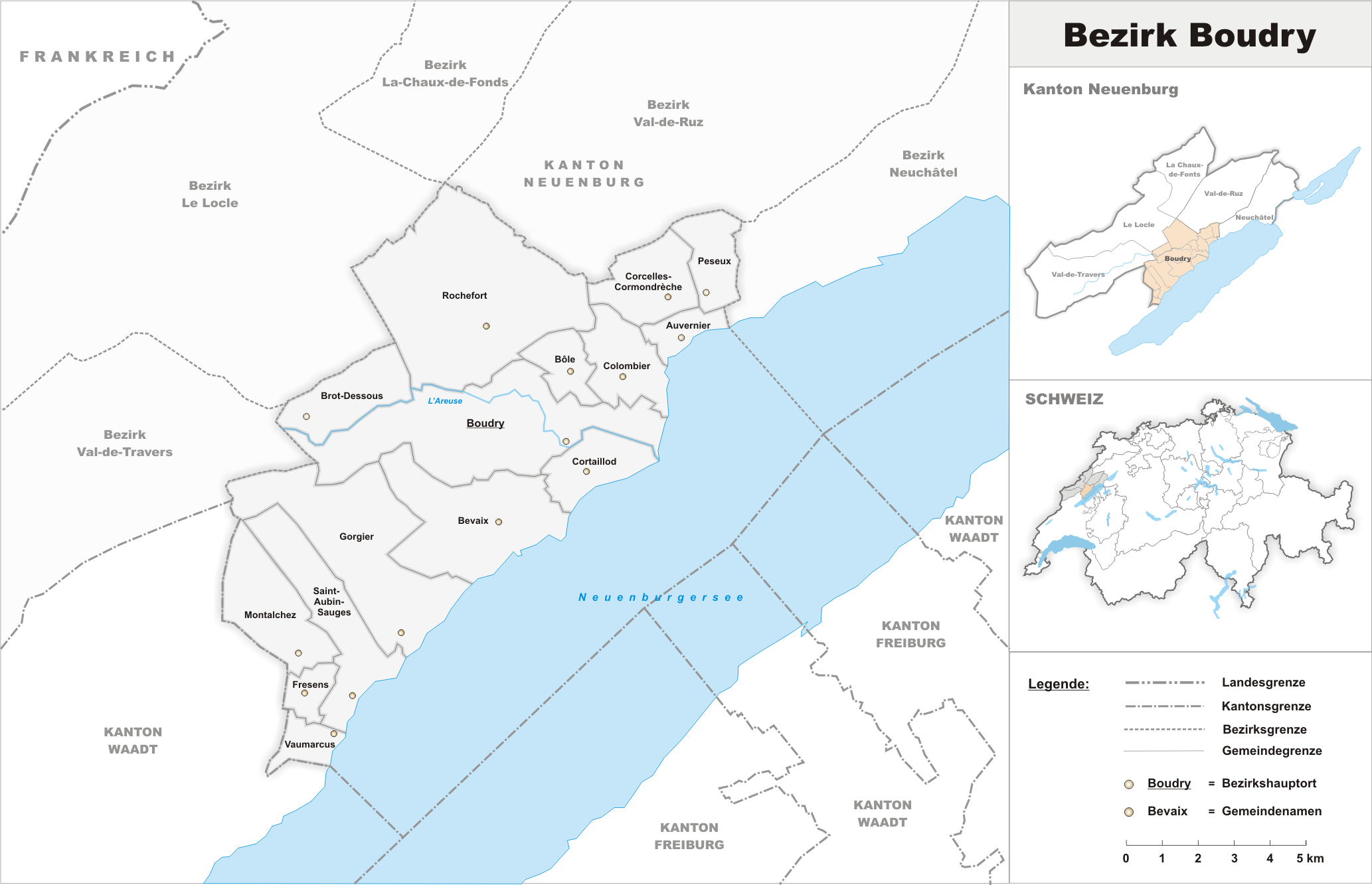 Municipalities in the district of Boudry